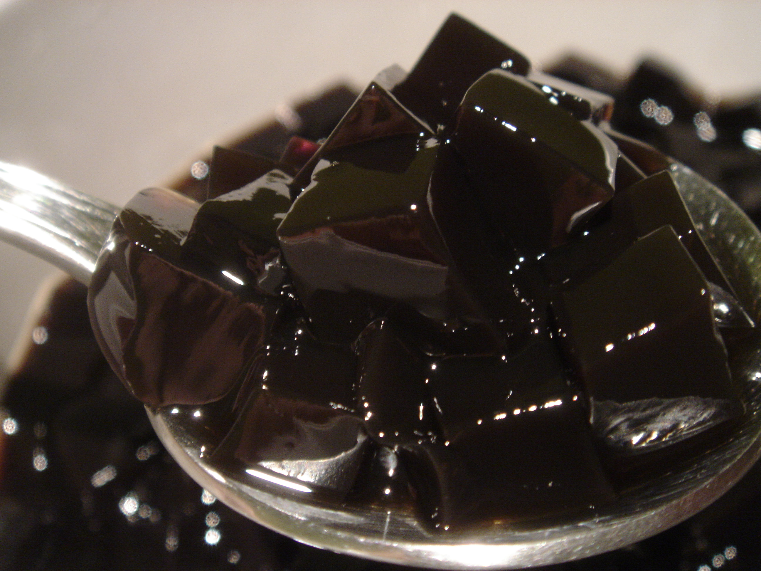 Spoon of chopped grass jelly